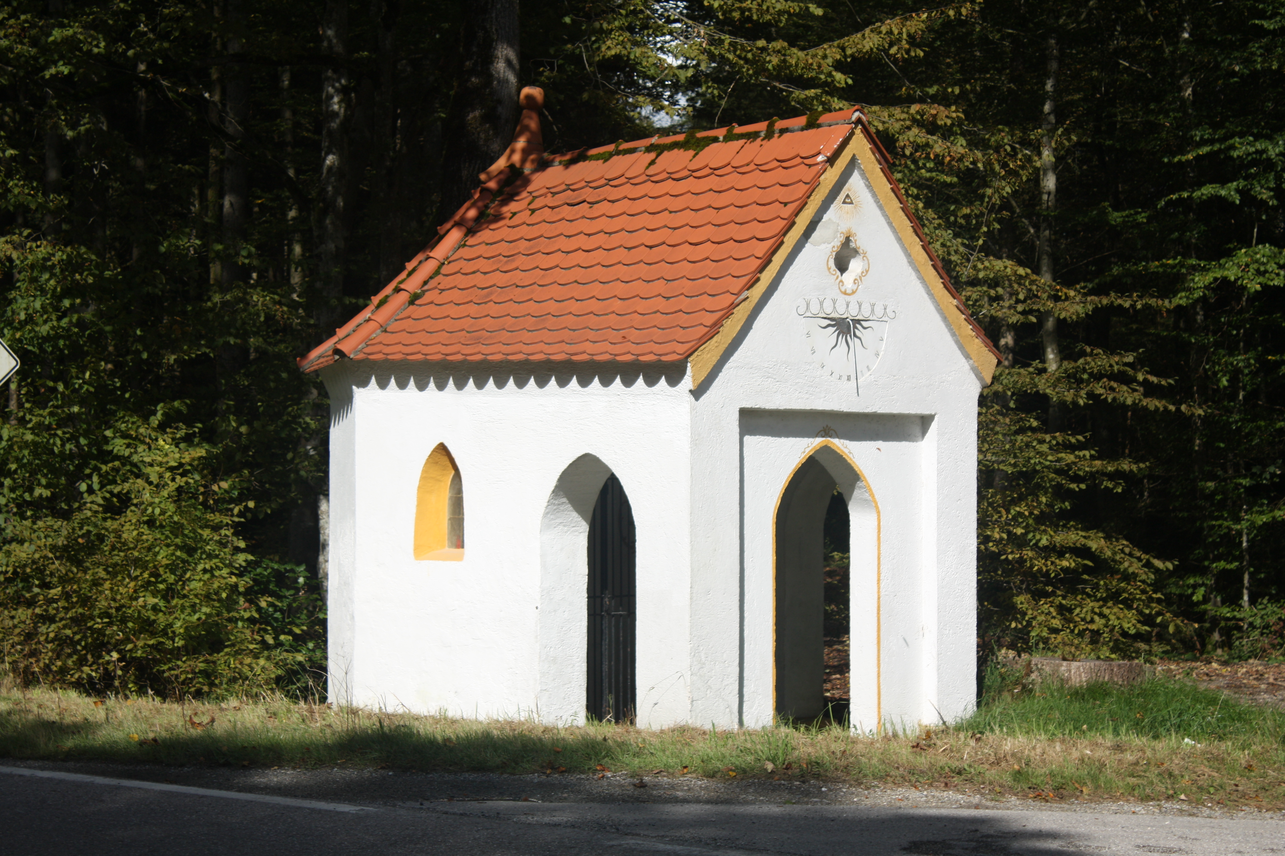 Hubertus Chapel in Ebersberger Forest, Bavaria, Germany